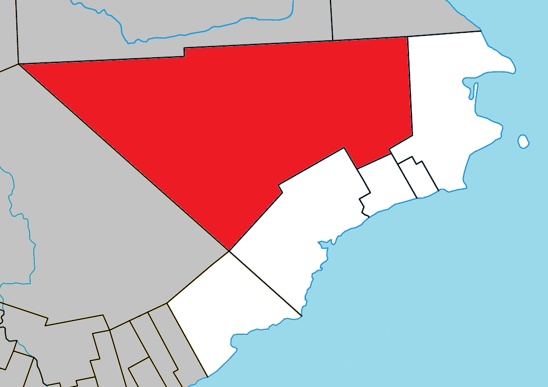 Location of Mont-Alexandre, Quebec within Le Rocher-Percé Regional County Municipality.